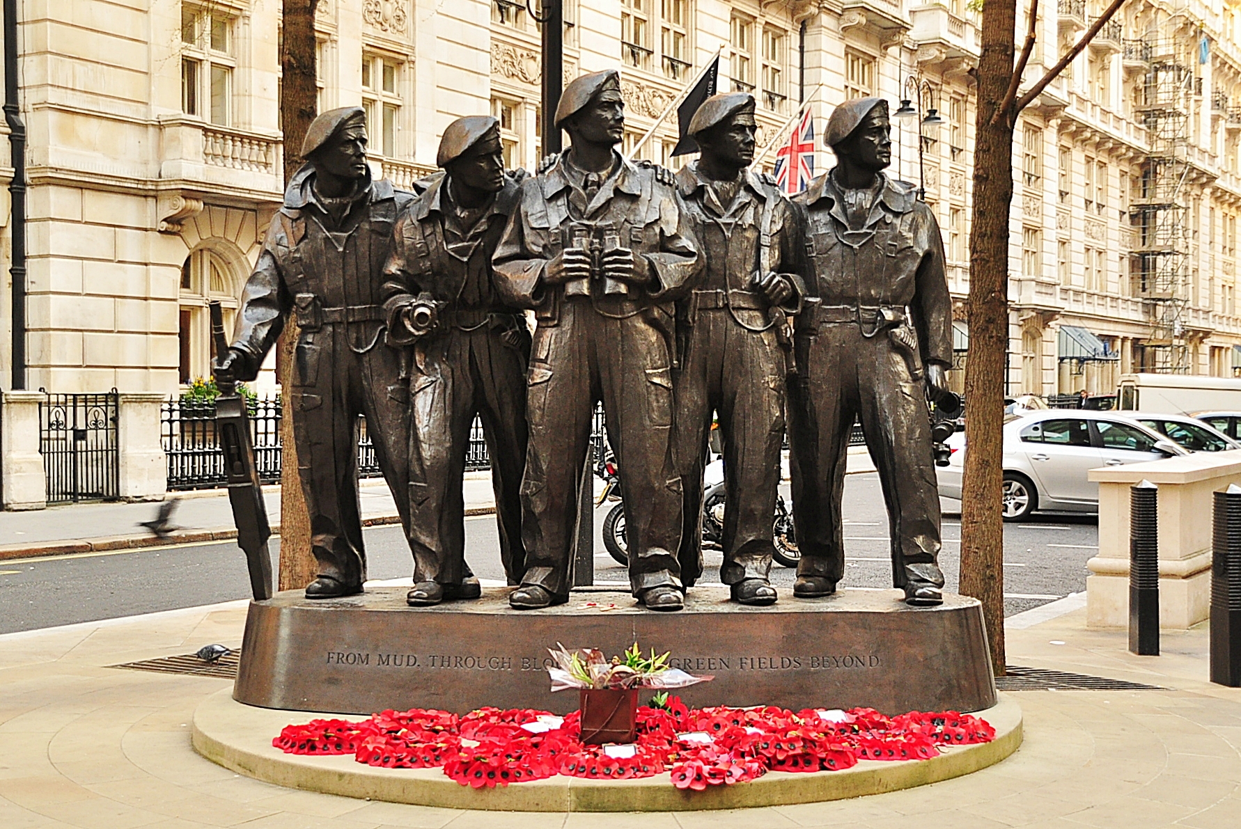 Royal Tank Regiment Memorial by Vivien Mallock, located on the junction of Whitehall Place and Whitehall Court. Unveiled in 2000.